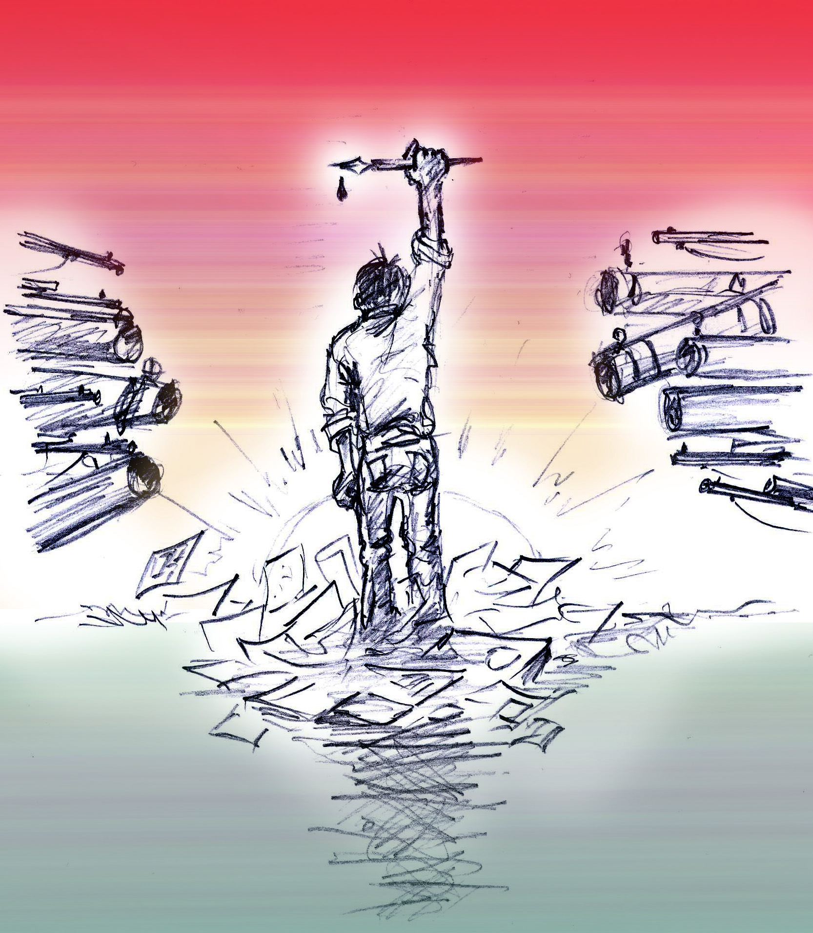 Satire cartoonist standing tall